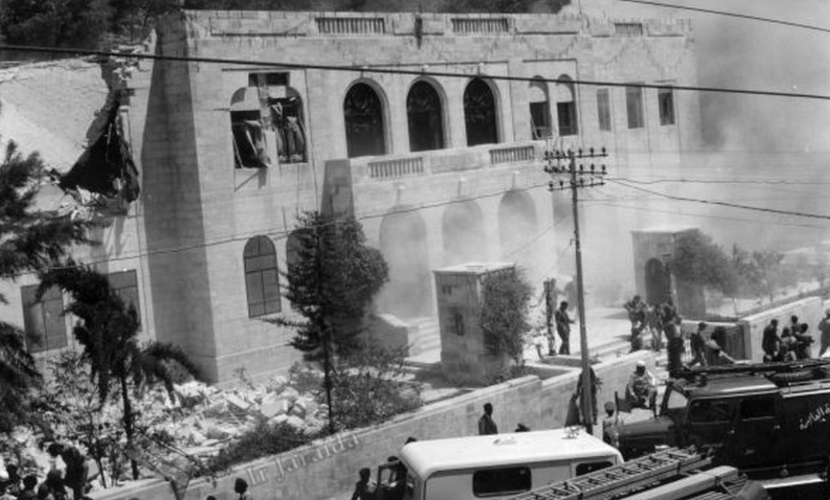 Prime Ministry of Jordan terrorist attack, 29 August 1960. PM Hazza Majali was killed.